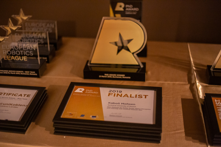 Georges Giralt PhD Award Certificate 2019